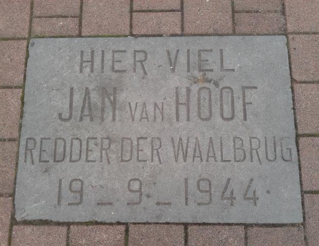 Memorial stone in memory of World War II, more specifically resistance fighter Jan van Hoof, Joris Ivensplein Nijmegen.